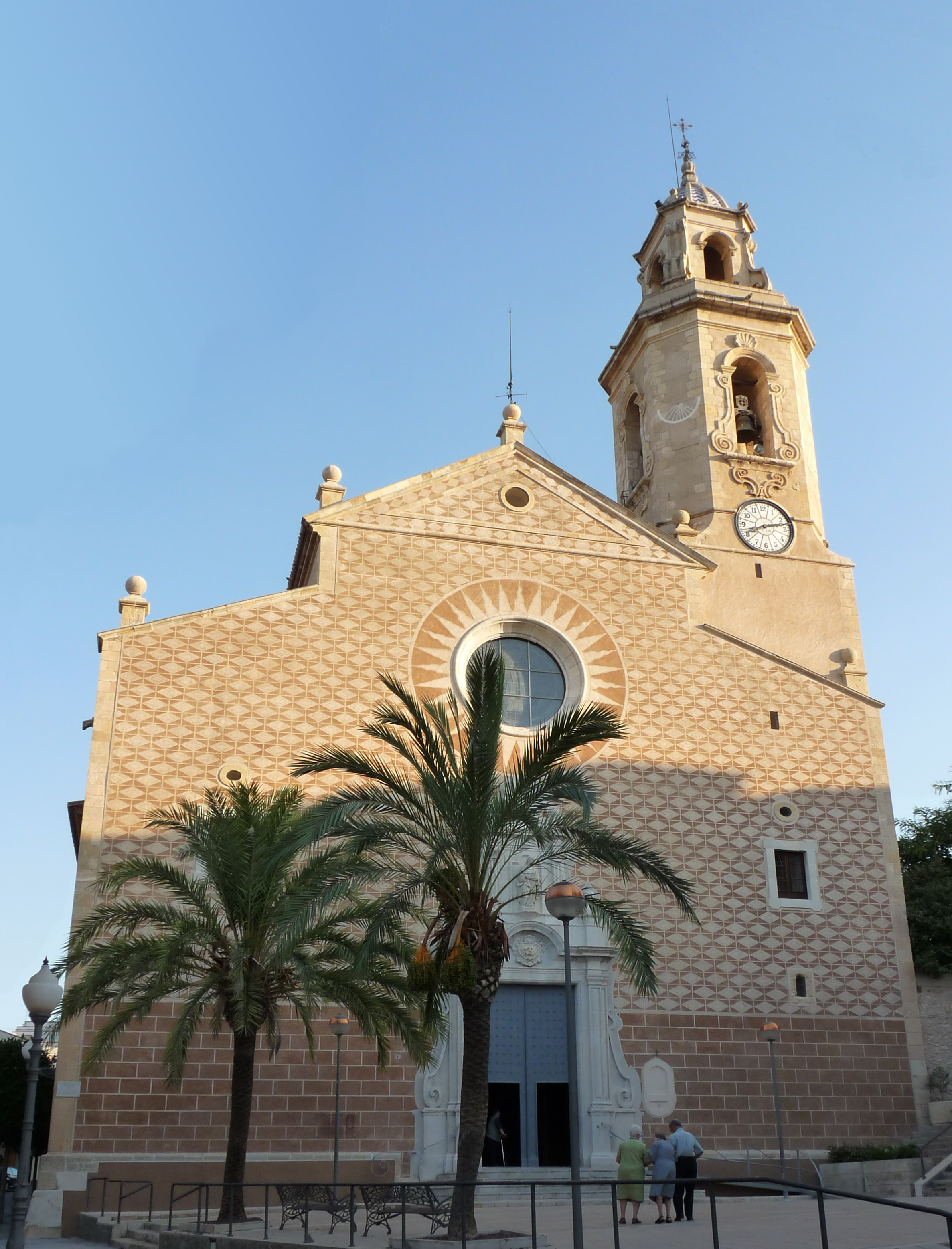 Churche of Sant Feliu, Constantí.